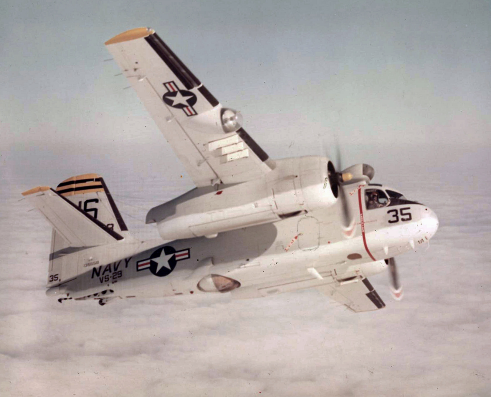 A U.S. Navy Grumman S2F-1 Tracker (BuNo 136658) from Antisubmarine Squadron VS-29 "Tromboners" in flight with its landing gear lowered. VS-29 was assigned to Carrier Anti-Submarine Air Group 53 (CVSG-53) aboard the aircraft carrier USS Kearsarge (CVS-33) from 1961 to 1963 flying the S2F-1 (after 1962: S-2A).After its retirement from the U.S. Navy this aircraft was converted to a "Turbo Firecat" waterbomber in service in France.